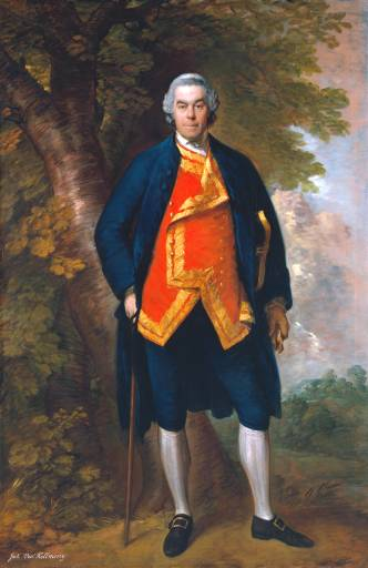 Portrait of John Needham, 10th Viscount Kilmorey (1711-1791)